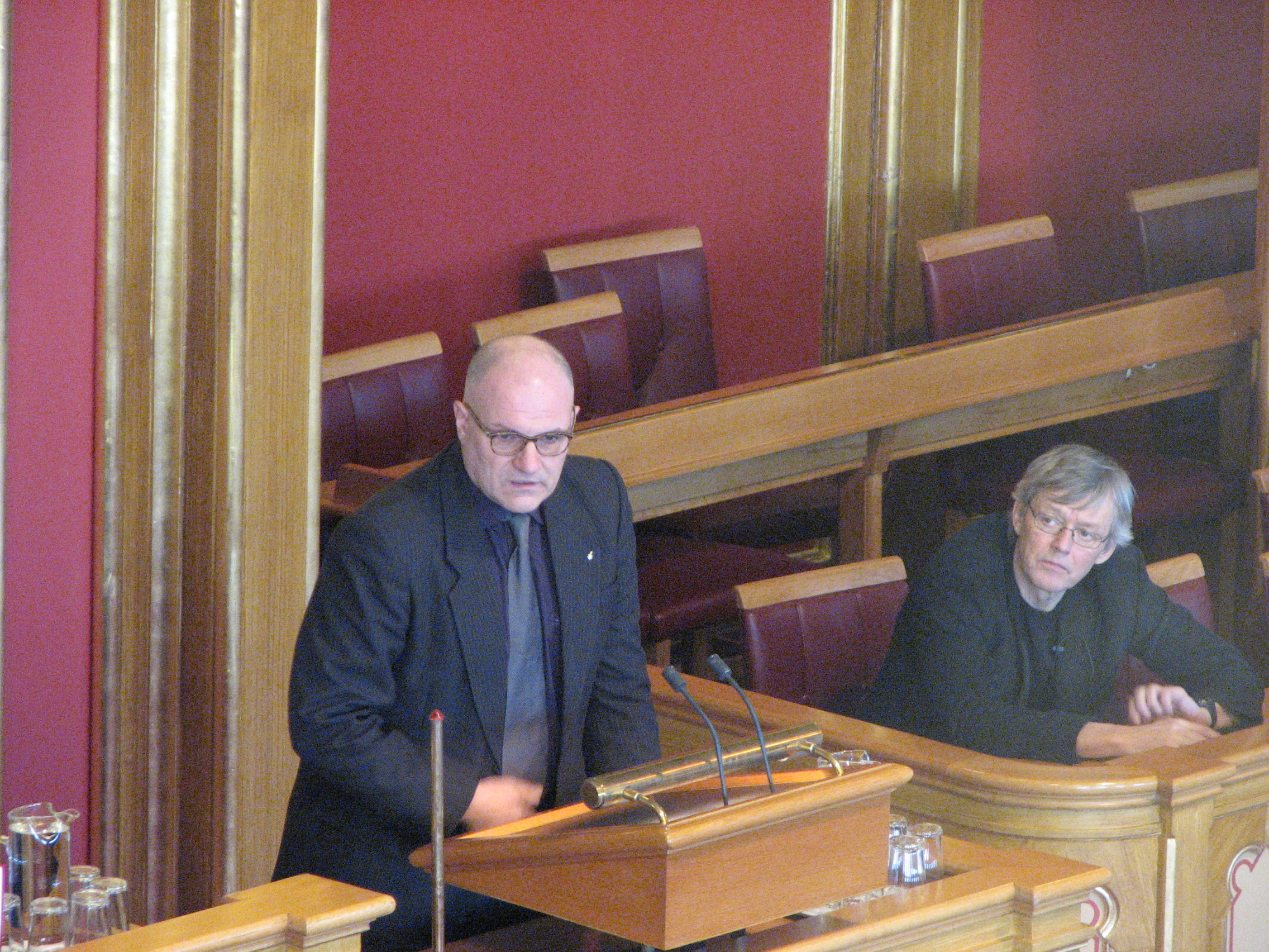 On the left: Norwegian representative Olav Gunnar Ballo, representing the county of Finnmark and the Socialist Left party, speaks in the Storting on the 12th of February 2009. Ballo is here arguing for using the customary procedure of referal to committee, rather than bringing a proposal straight to a vote, in the so-called "Hijab debate". Ballo's view of procedure prevailed.[1] On the right: Stein Kåre Kristiansen, political editor in the TV channel TV2.